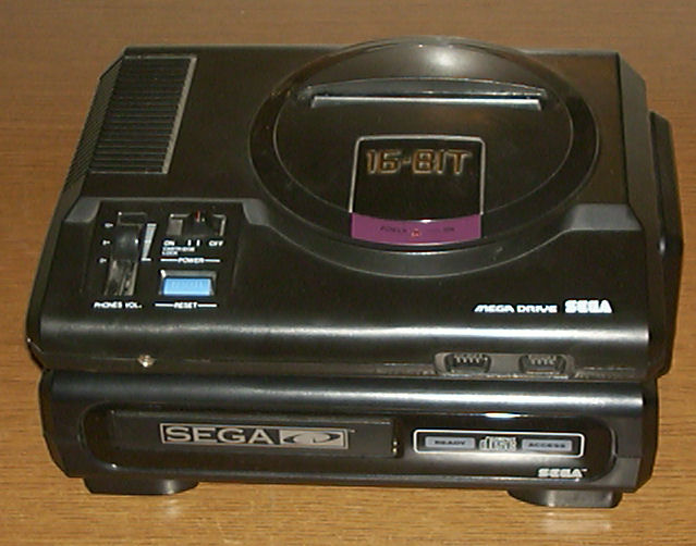 An Asian Mega Drive combined with a U.S. Sega CD.